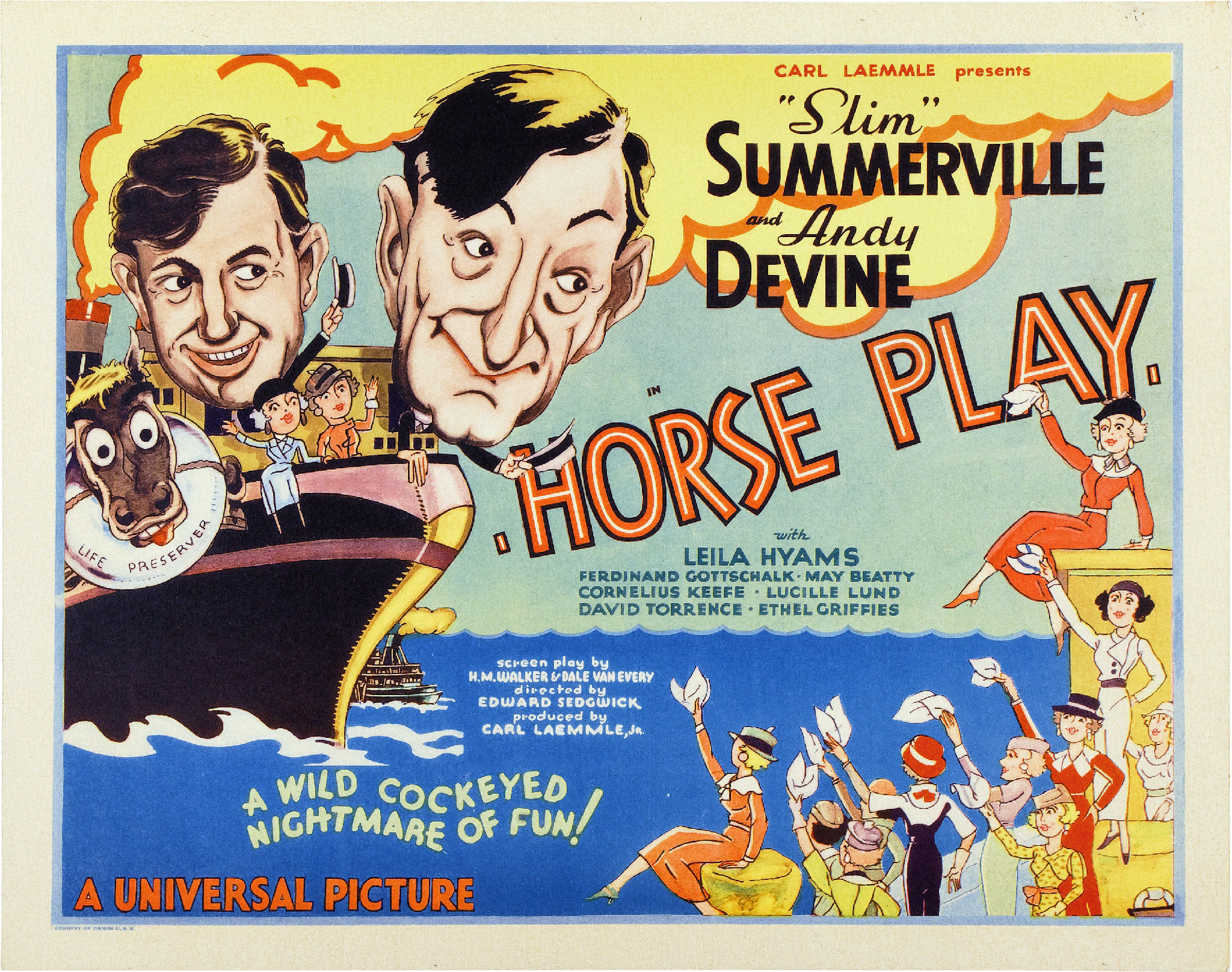 Poster for the 1933 film Horse Play. There are no copyright marks on the item. At bottom left is Country of origin USA.